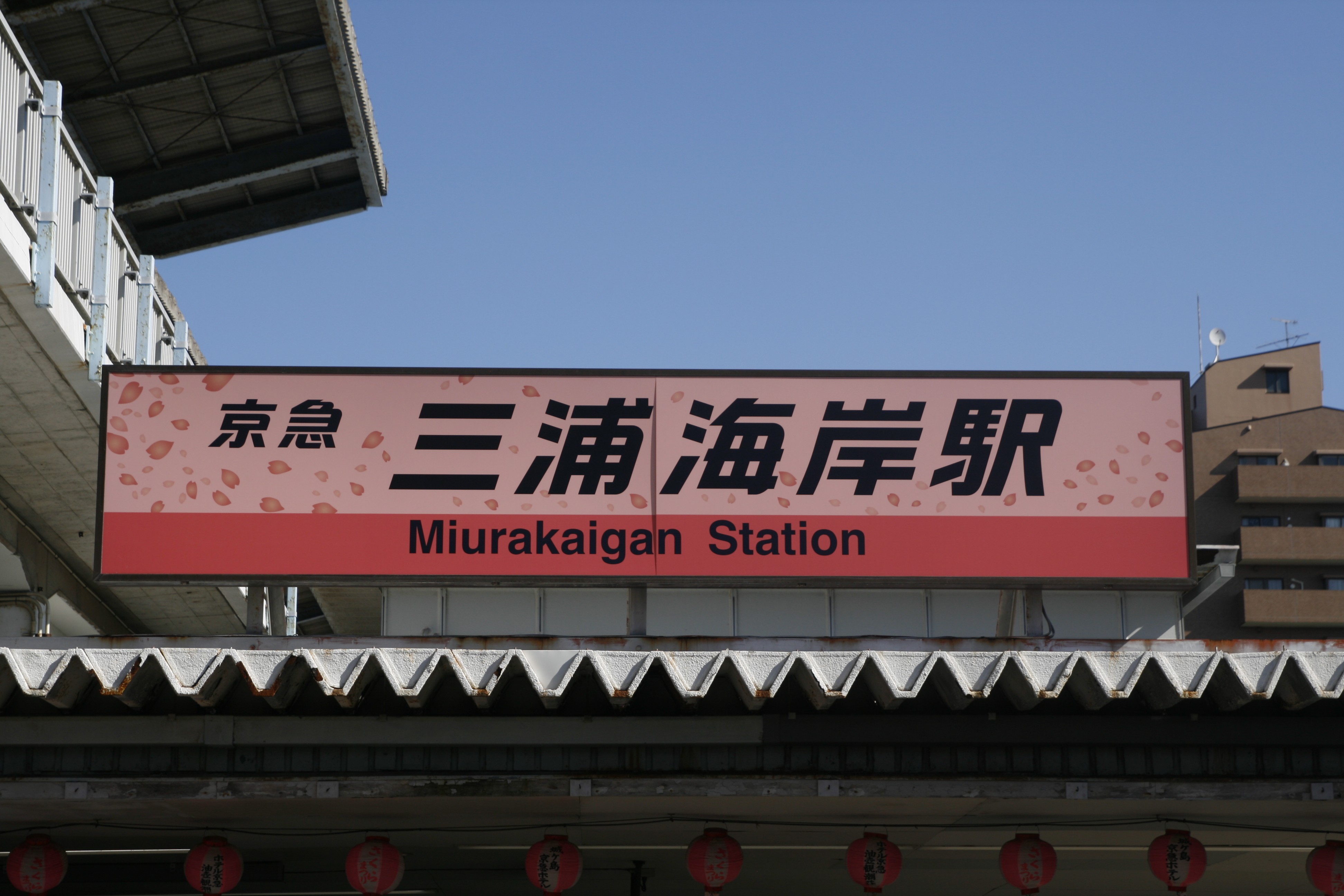 Miurakaigan Station